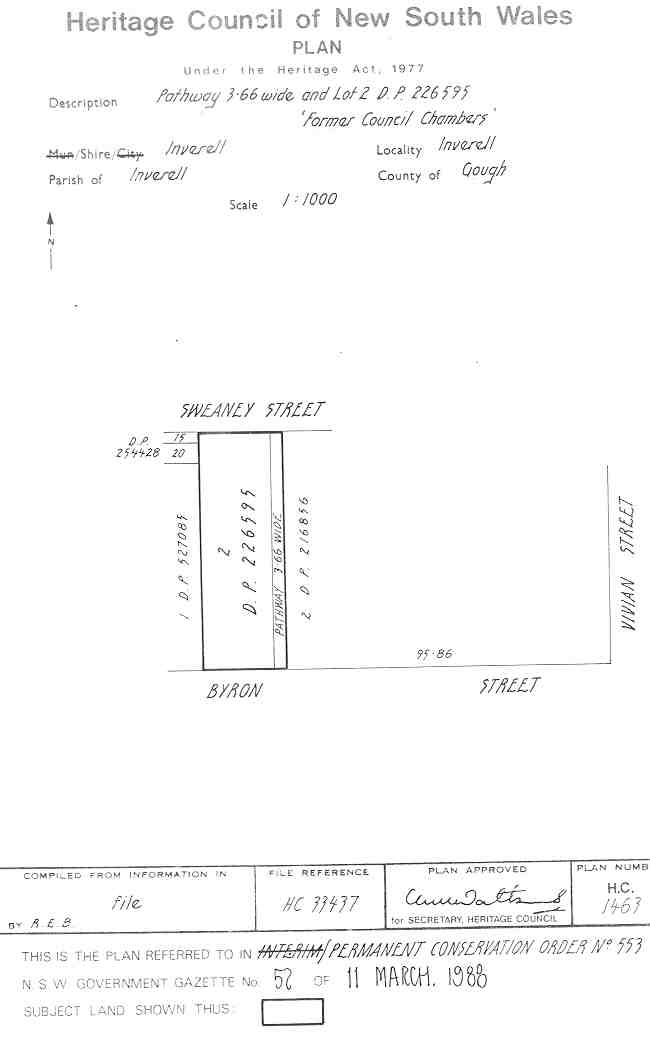 Inverell Shire Council Building: PCO Plan Number 553